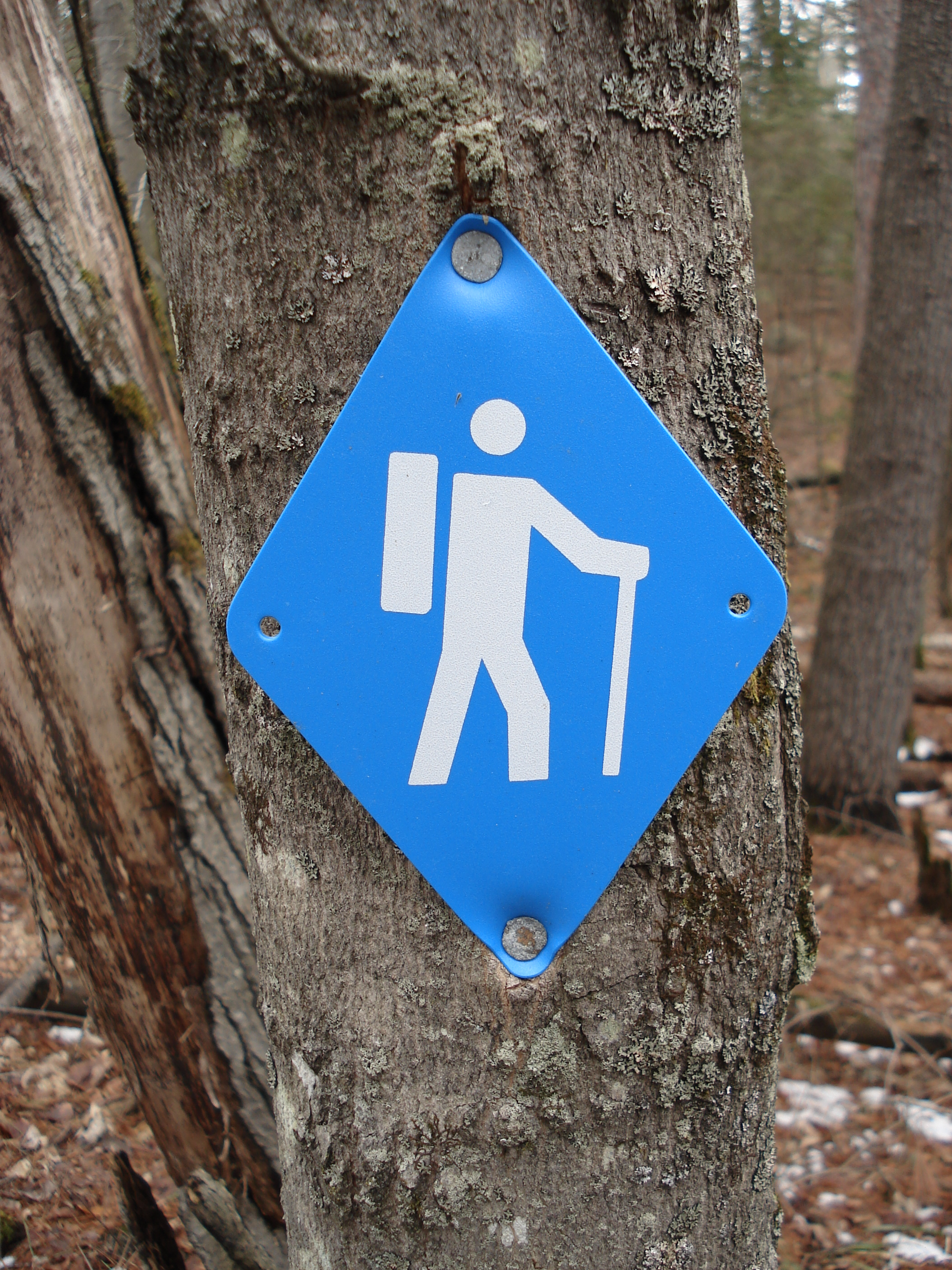 Blue diamond-shaped sign used to designate hiking trails in provincial parks in Ontario, Canada.